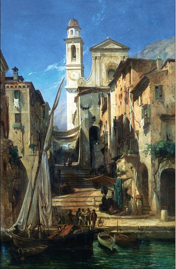 Villefranche-sur-Mer